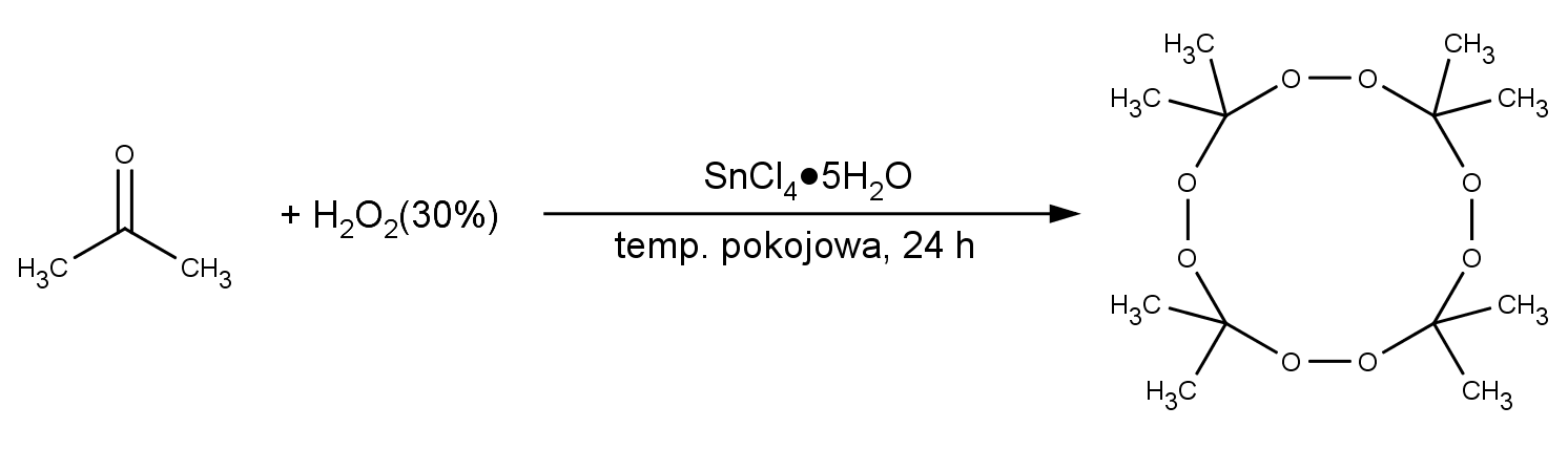 Tetrameric acetone peroxide